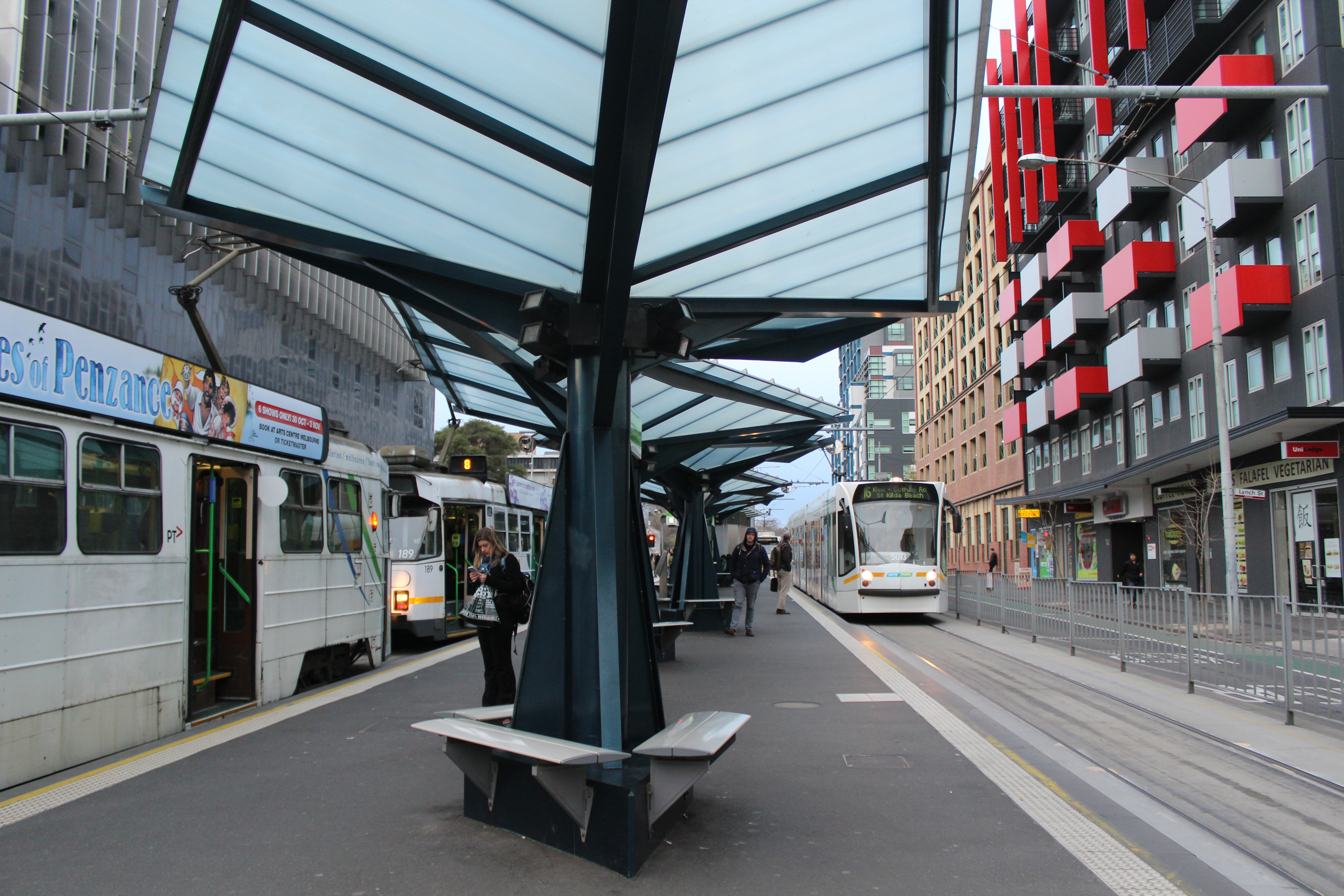 Melbourne University tram stop, looking north, 2013